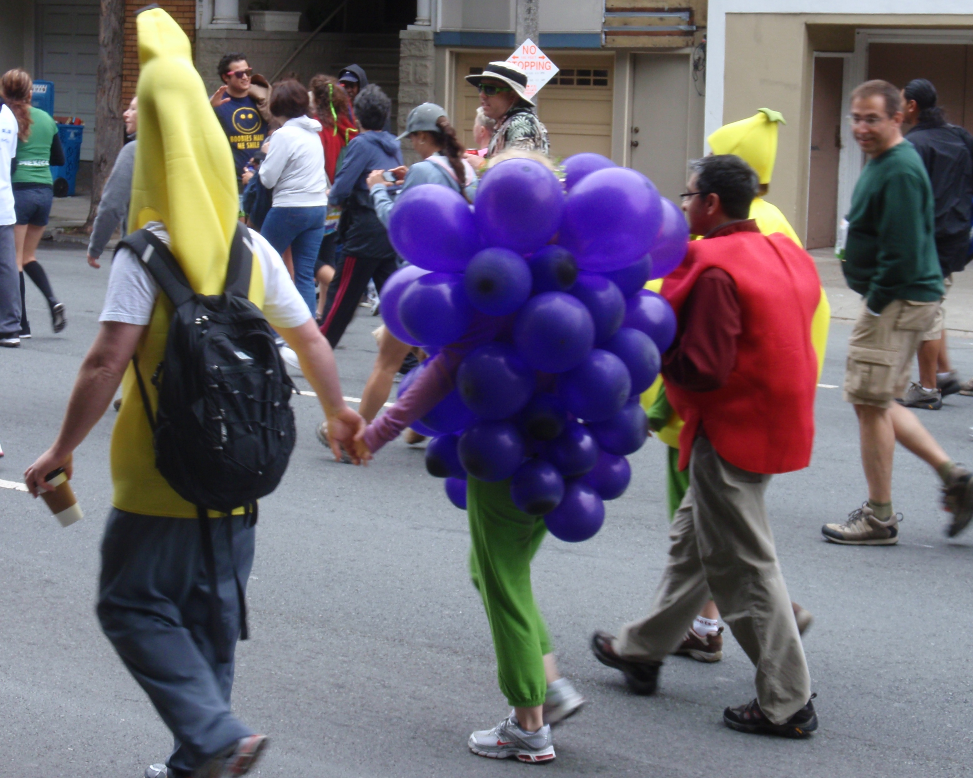 Bay to Breakers, May 16 2010